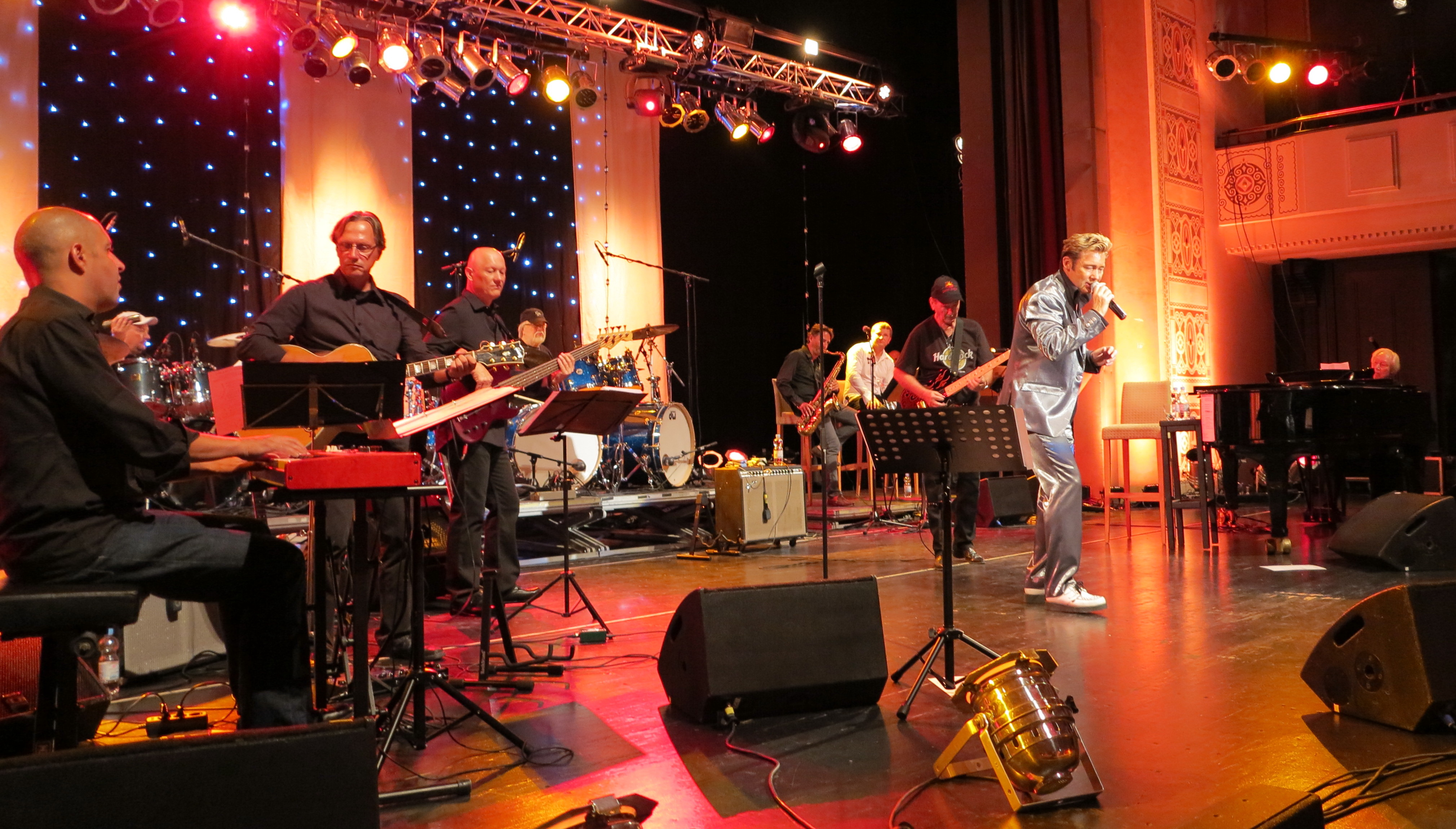 The TCB Band, Elvis Presley’s band since 1969, 2013 on stage at the 12th European Elvis Festival in Bad Nauheim, Dolce Theatre. Three members of the original TCB Band are James Burton (James Burton) (g, 3rd from right with cap), Ron Tutt (Ron Tutt) (d, background, cap) Glen Hardin (Glen Hardin; p, since 1970, right). The singer is Dennis Jale.